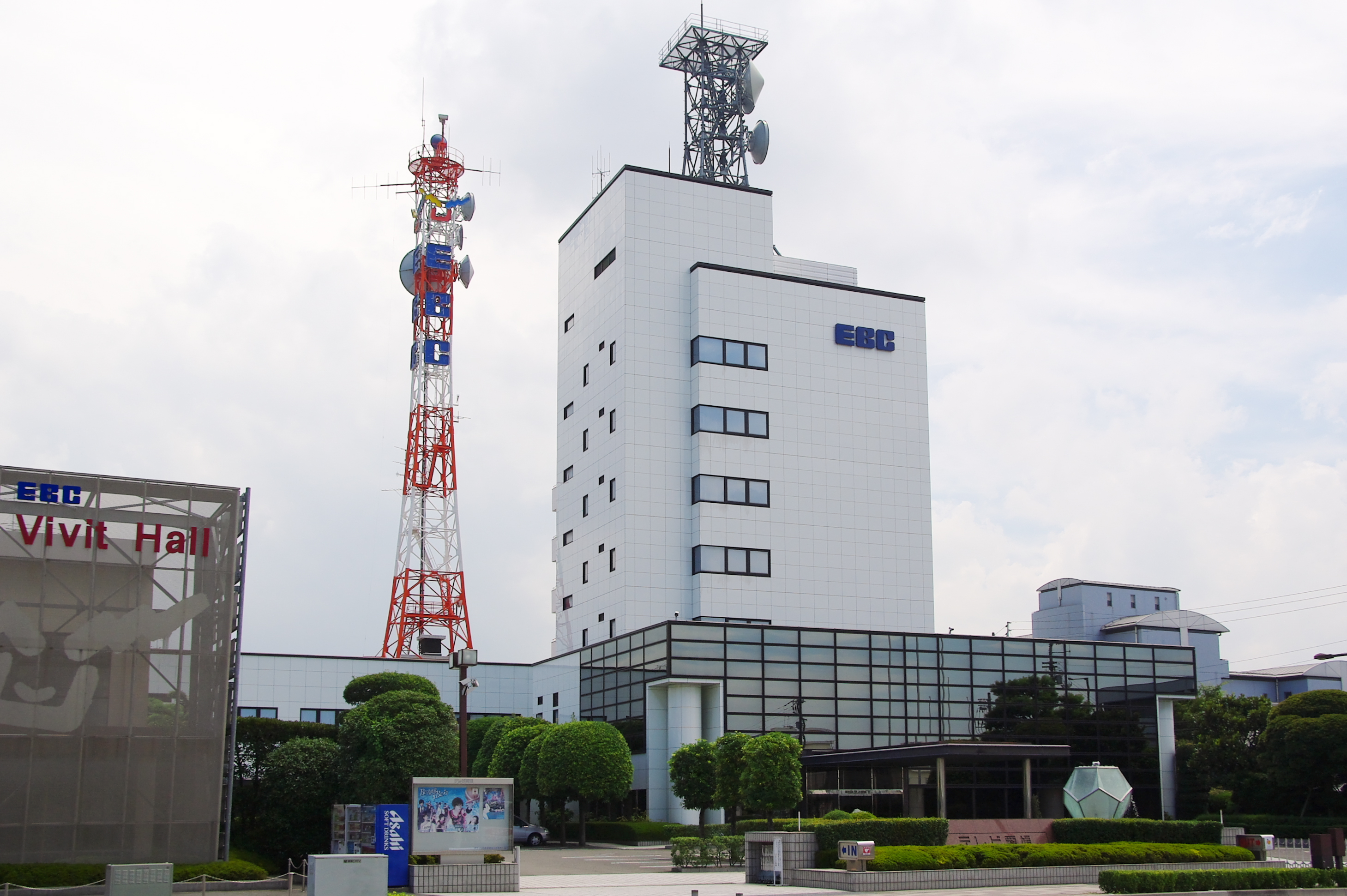 Photograph of the headquarters of Ehime Broadcasting Company (EBC, Television Ehime), in Matsuyama, Ehime Prefecture, Japan.